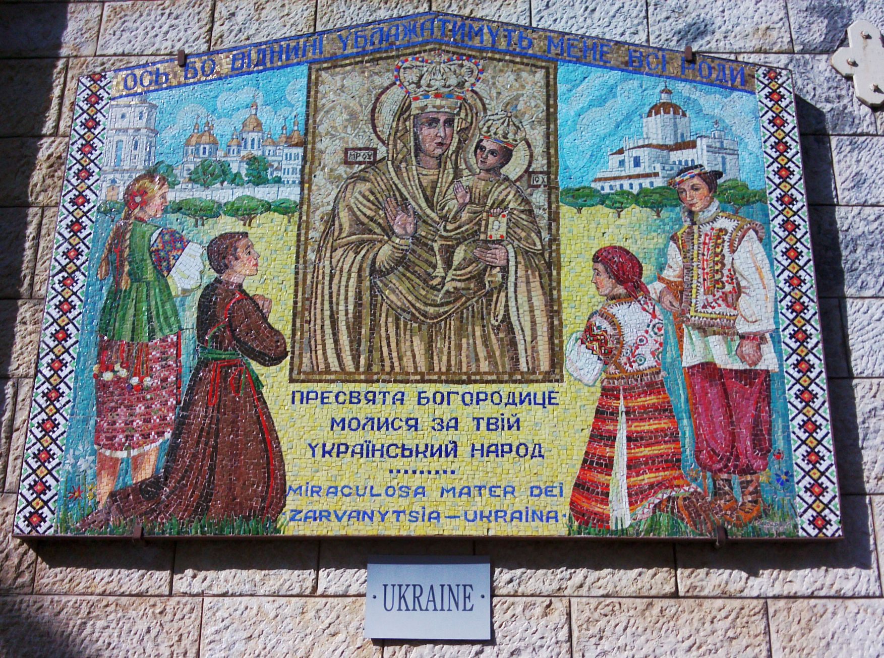 mosaic near church of the Annunciation in Nazareth